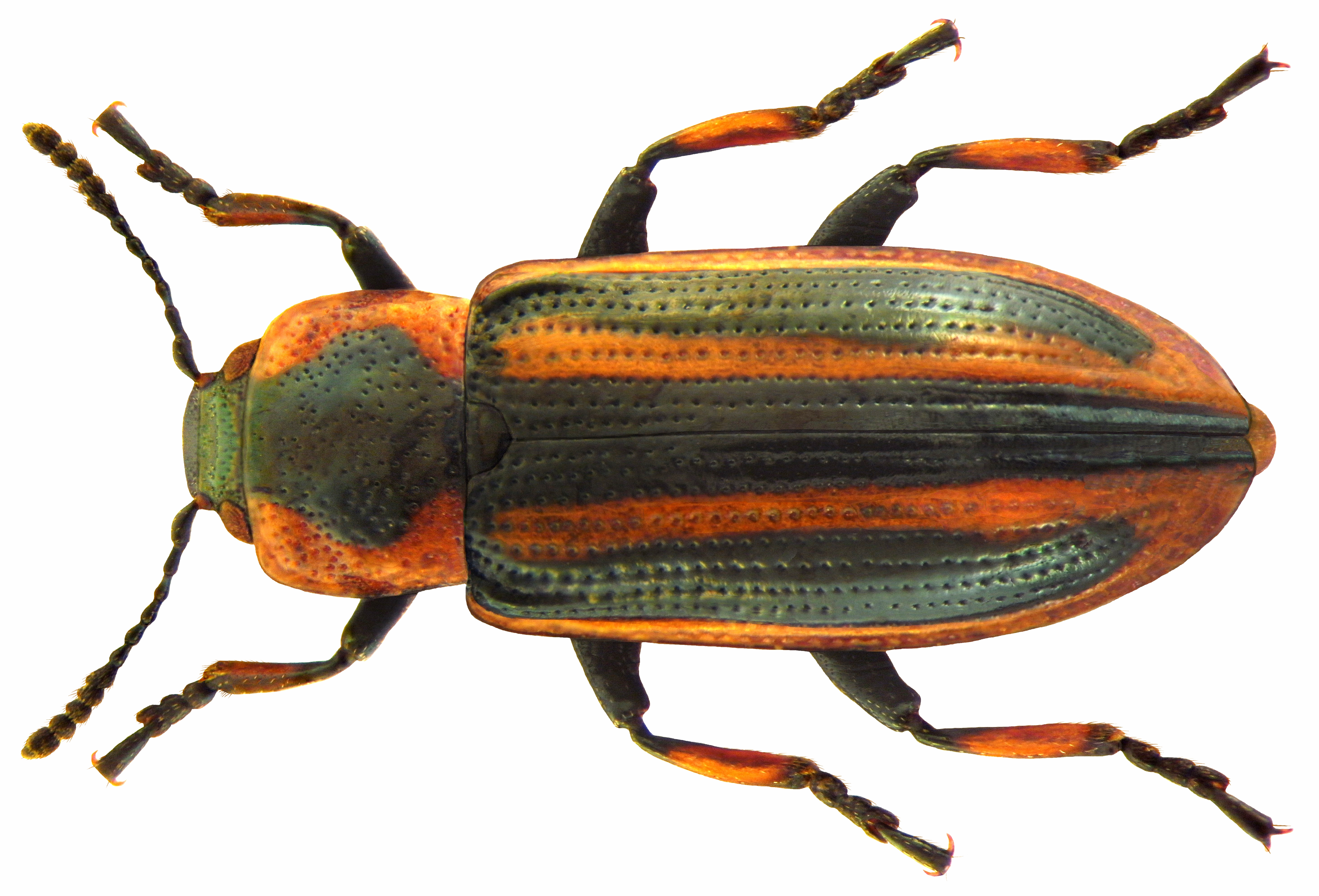 Family: Chrysomelidae Size: 5-6 mm Origin: Europe Ecology: on Umbelliferae Location: Germany, Bavaria, Upper Franconia, Selbitz leg det. U.Schmidt, 1974 Photo: U.Schmidt, 2010